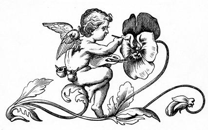 Creator of this illustration is the German artist Fedor Flinzer. The image was first published in the German youth magazine "Deutsche Jugend", vol. 2, 1873, p.186. This version of the image is adapted. Flinzer's signet F is removed.